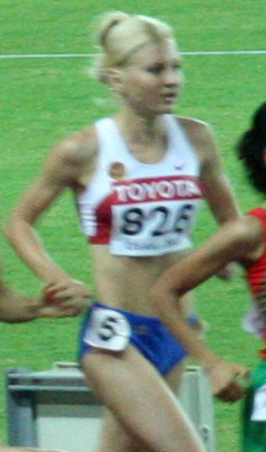 World Athletics Championships 2007 in Osaka - Scene from the women's 1500 metres final: Nataliya Panteleeva